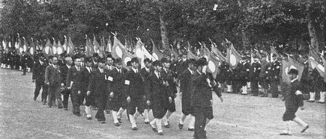 Dai Nihon Seinento